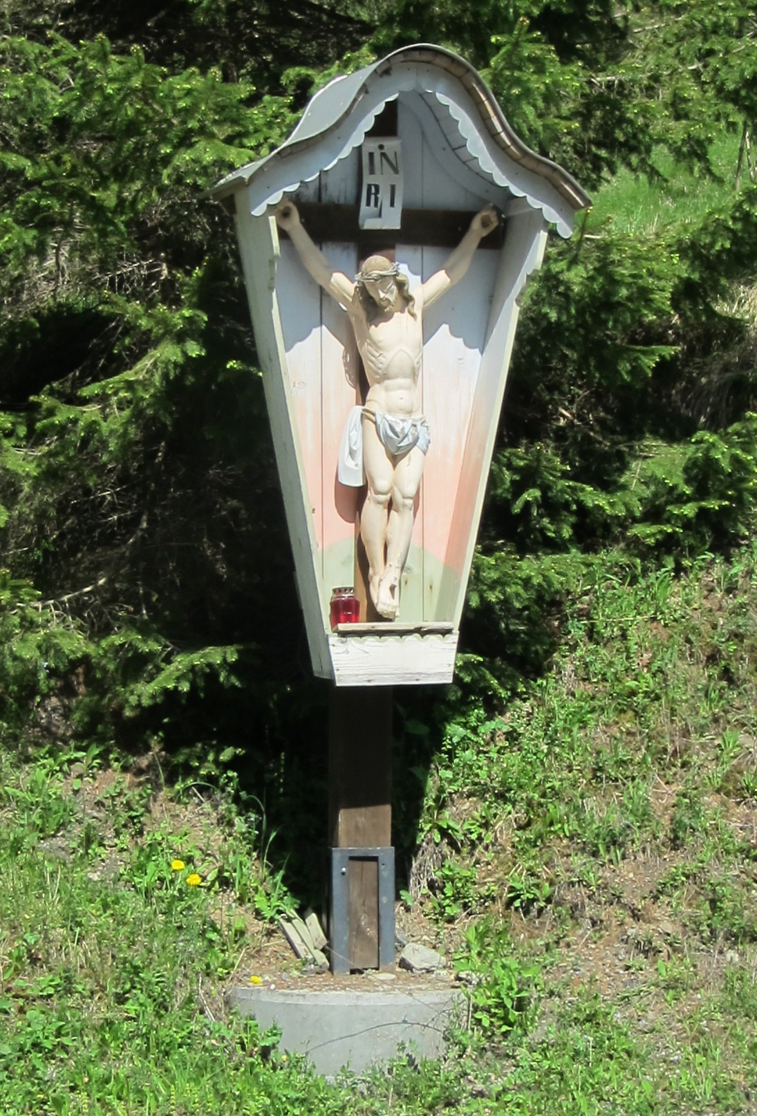 Wayside shrine in Podpleče, Municipality of Cerkno, Slovenia. 19th century.